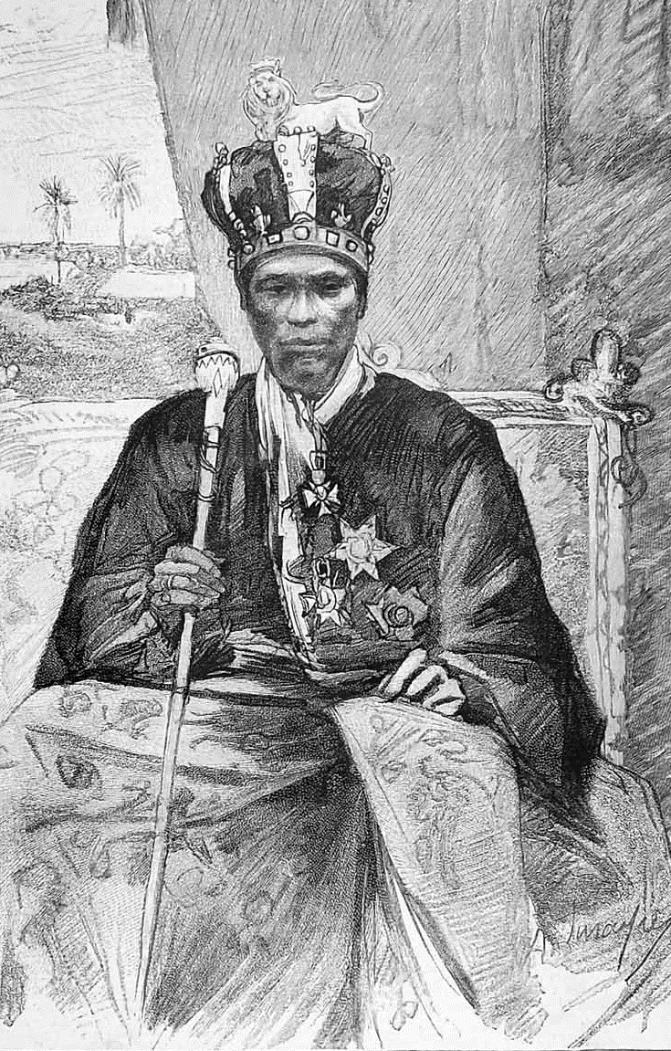 King Toffa of Porto-Novo